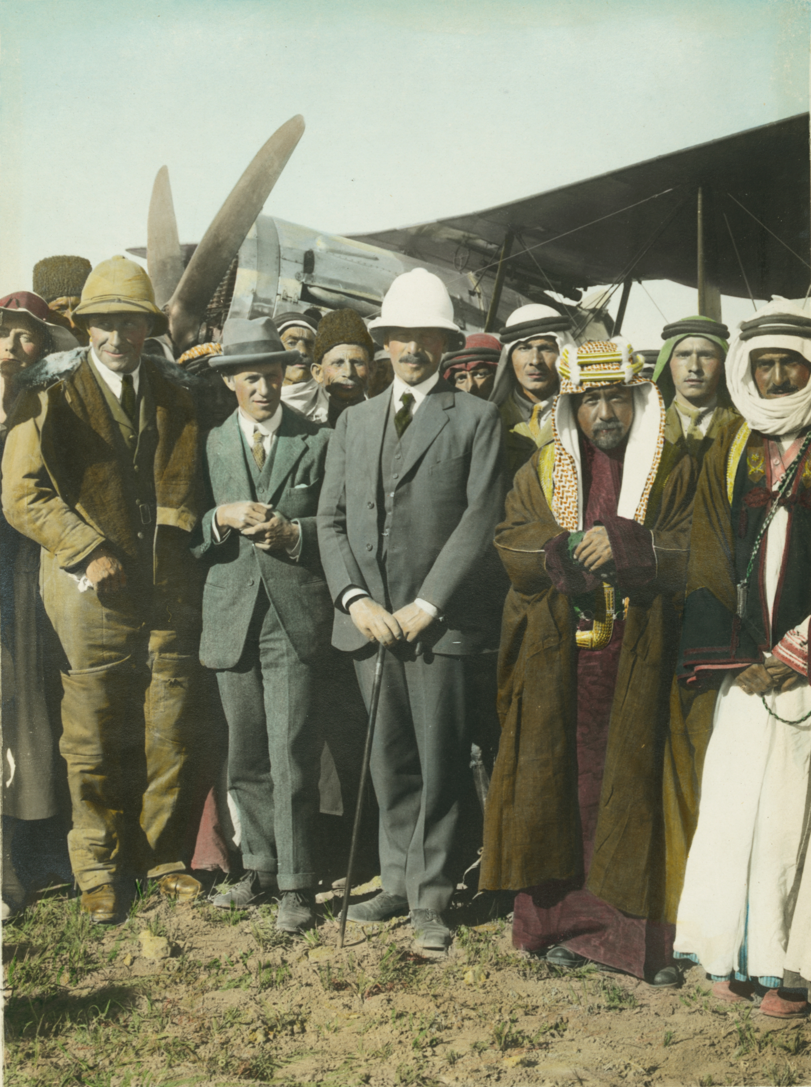 On the Aerodrome at Amman: T.E. Lawrence (Lawrence of Arabia, 1888-1935), Sir Herbert Samuel (1870-1963), and Emir Abdullah (Abdullah I of Jordan, 1882-1951). Hand-colored photographic print. LOC note: "Photograph also shows a woman, possibly Gertrude Bell, at left and Sheik Majid Pasha el Adwan at far right."